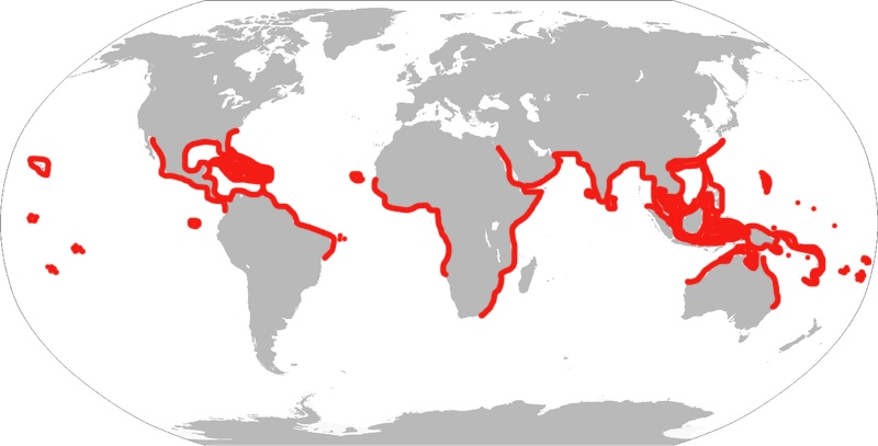 The geographical location of the spotted eagle ray.